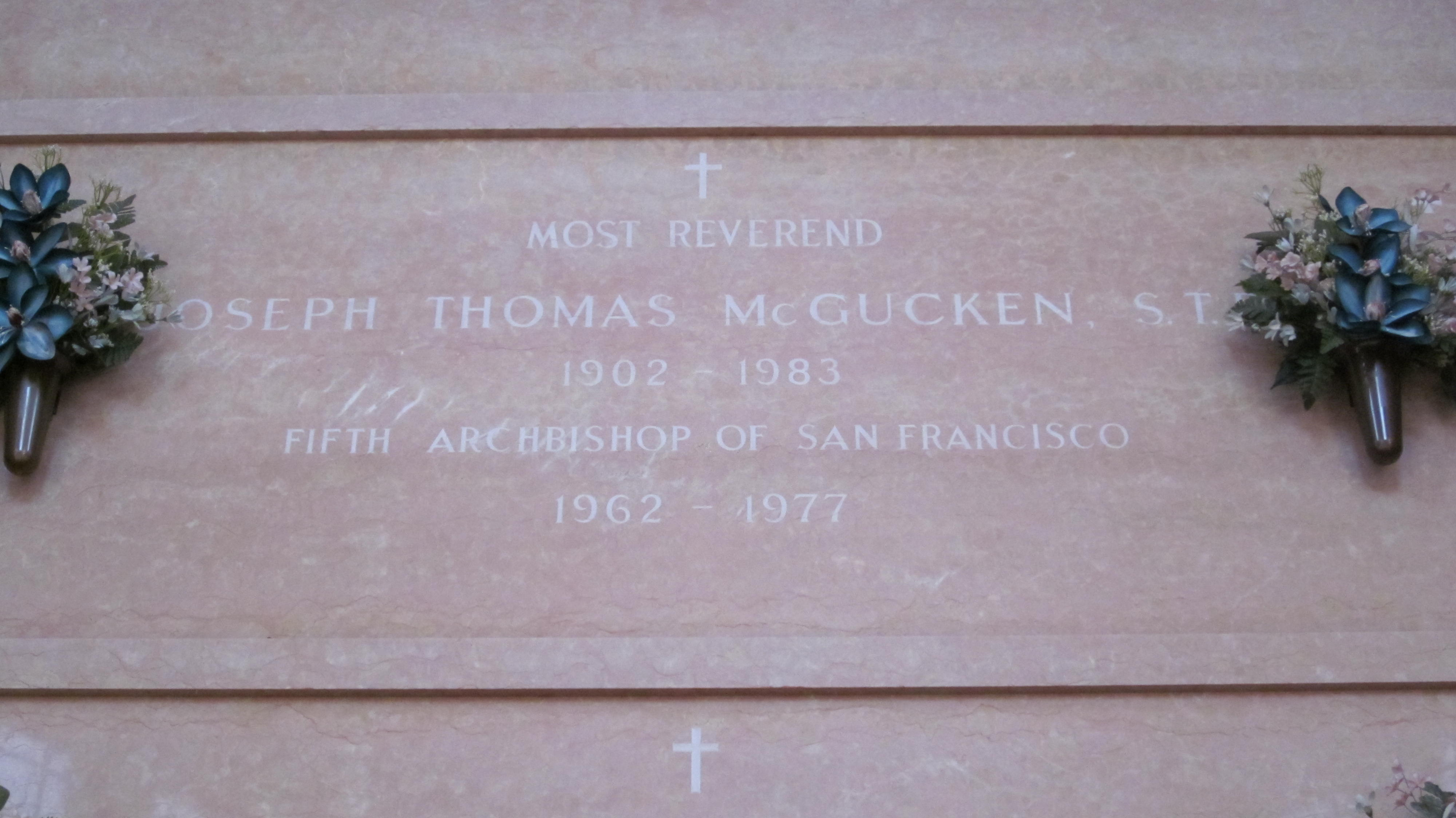 The vault of Archbishop Joseph McGucken in the Holy Cross Mausoleum at Holy Cross Cemetery in Colma, California.